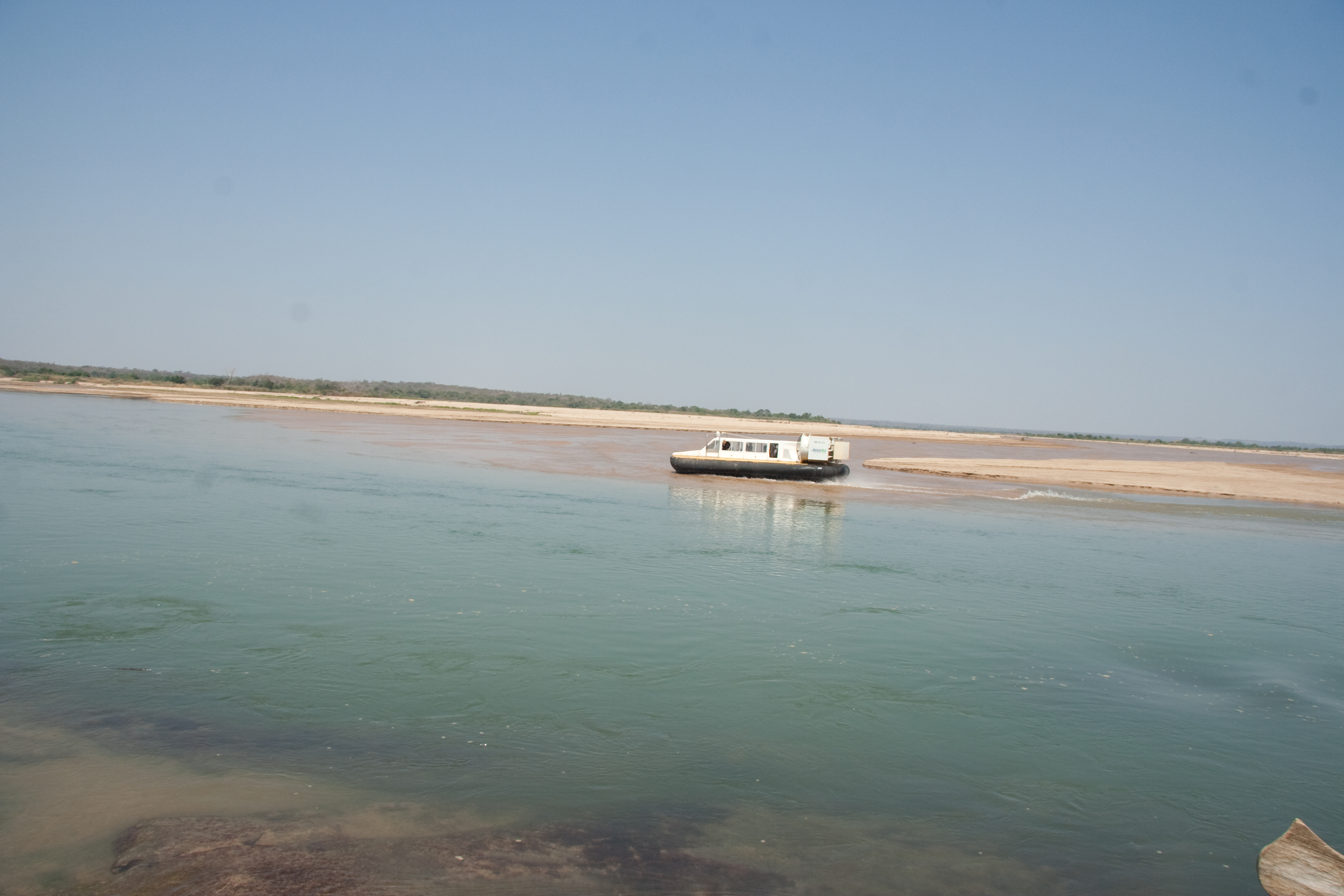 river rover hovercraft James bond on the Mangoky river